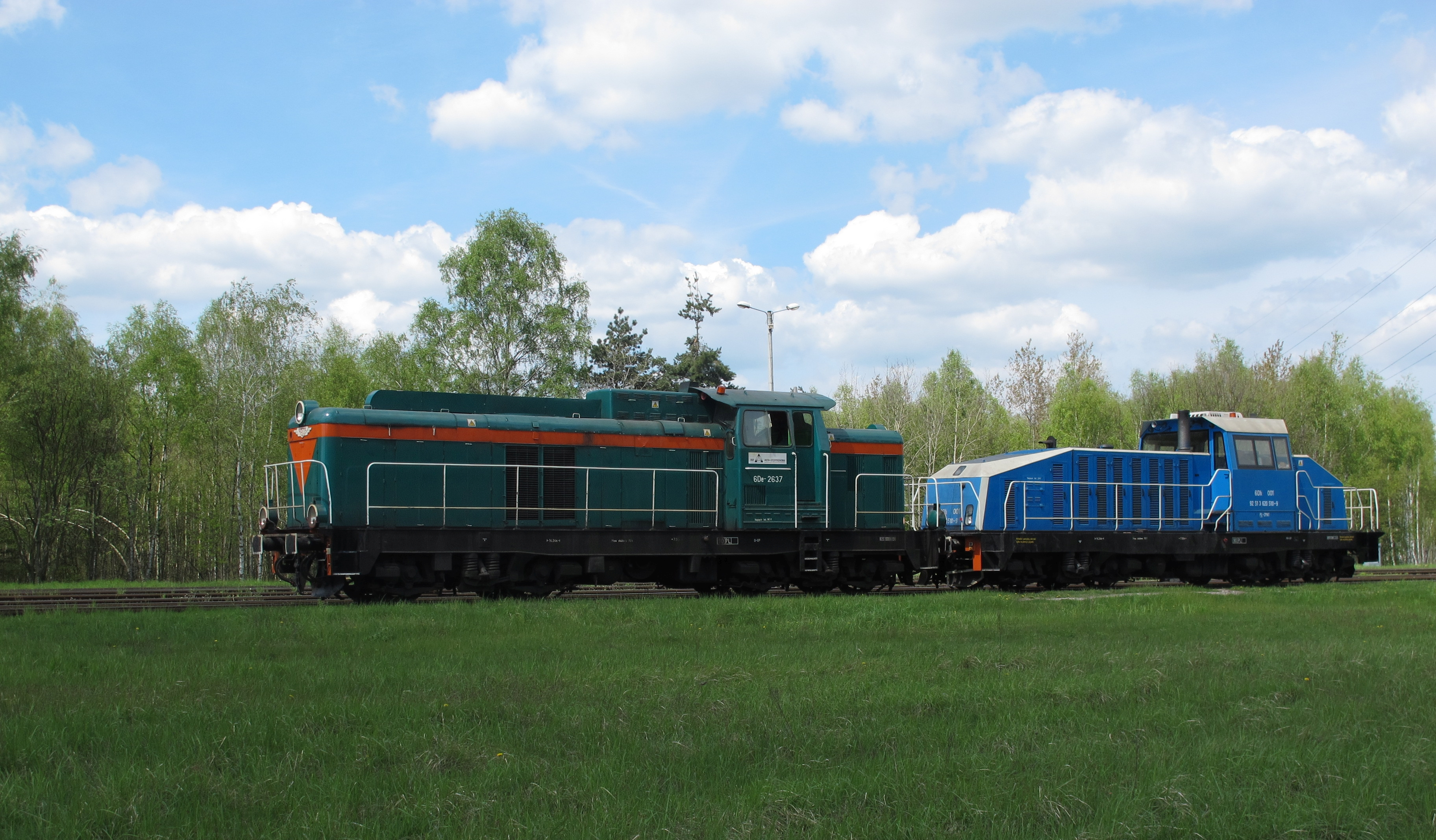 Częstochowa - 6De-2637 and 6Dh-1 001